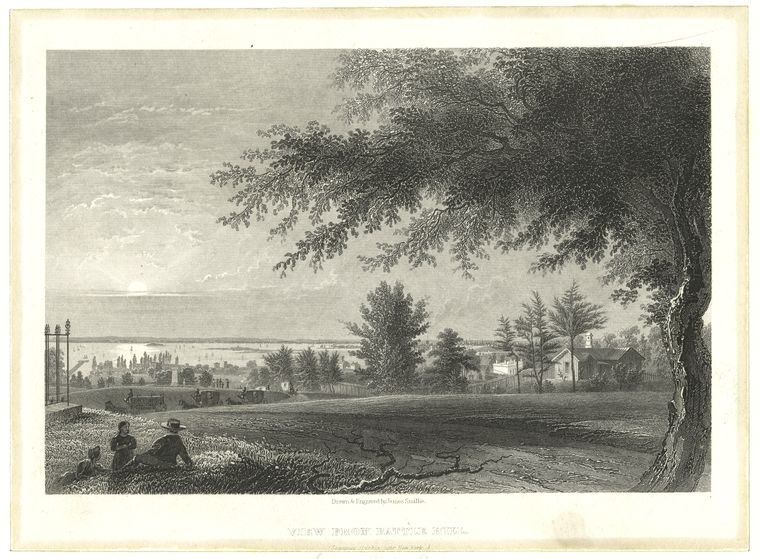 View From Battle Hill, a steel engraving by James Smillie. Battle Hill is the highest point in Brooklyn, New York. Located in what is now Greenwood Cemetery, Battle Hill was named for the fighting that occured on its slopes between American and British troops during the Battle of Brooklyn on August 27, 1776. James Smillie was born in Edinburgh, Scotland in 1807 and went to New York City in 1829. He engraved plates for the New York-Mirror also did engraving for the plates used to make bank-notes. Died in Poughkeepsie, New York in 1885.